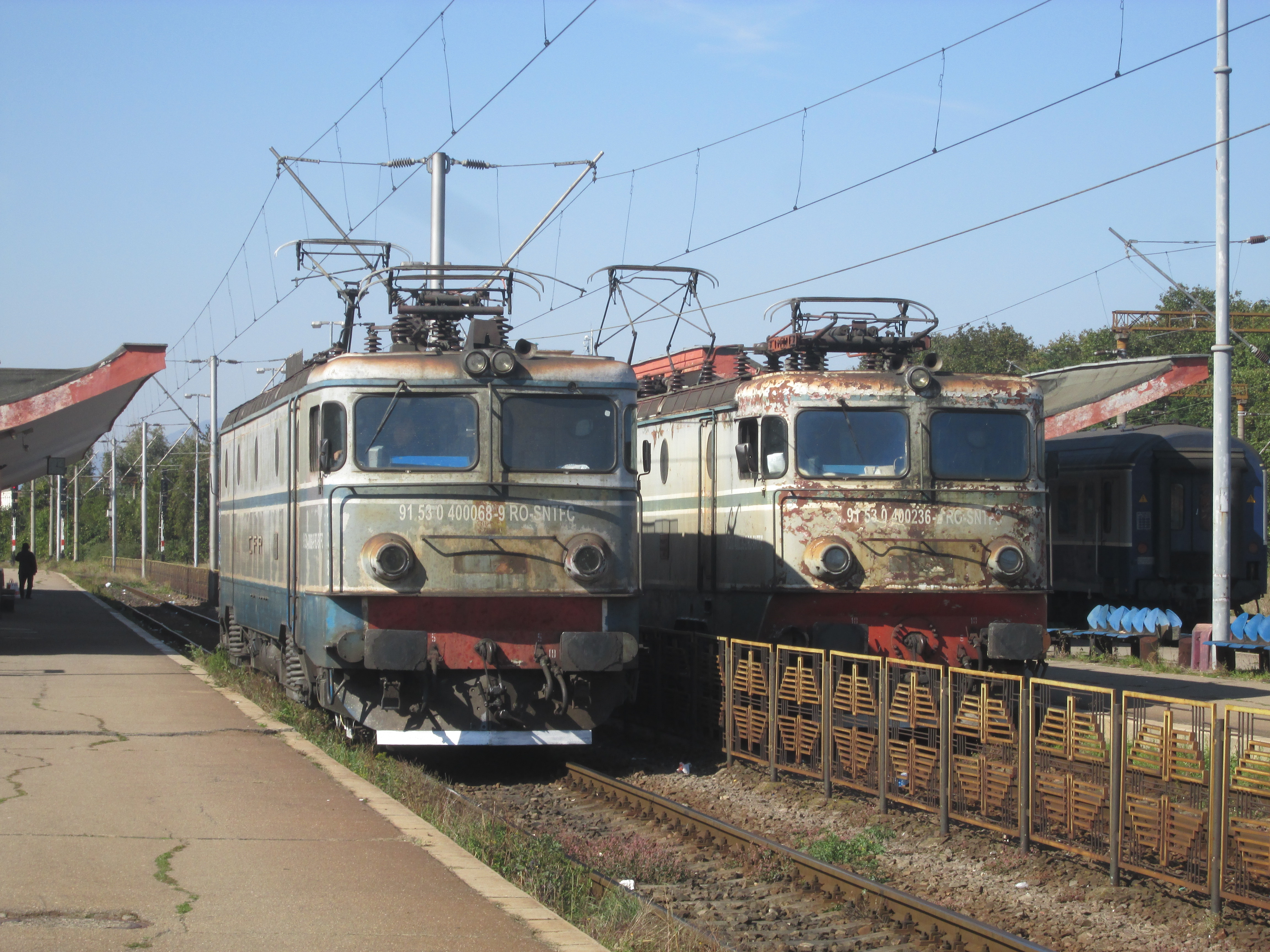 CFR 400 068 (formerly 40-0068-3 of Teius depot, manufactured 1970) and CFR 400 236 (formerly 40-0236-6 of Brasov depot, manufactured 1975) at Brasov rail station, Romania